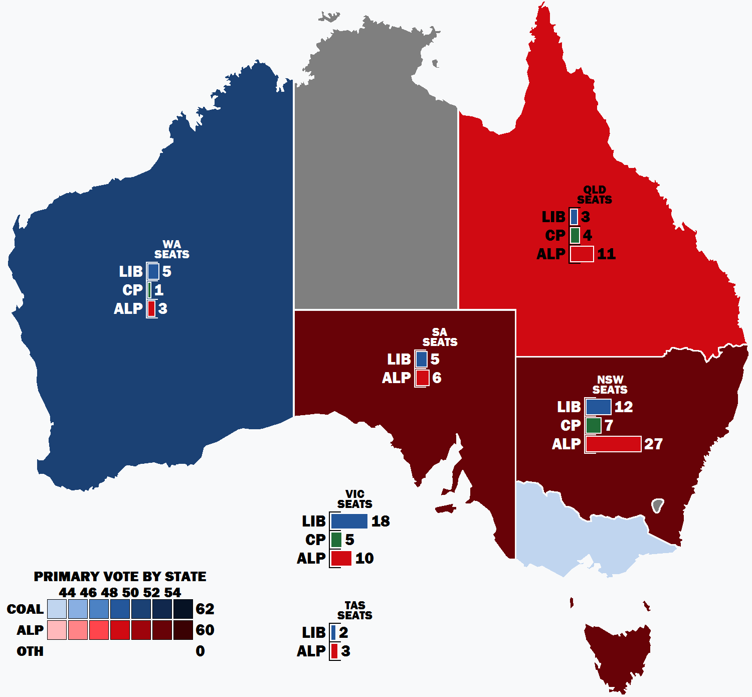 Result of the primary vote by state in the 1961 Australian federal election.